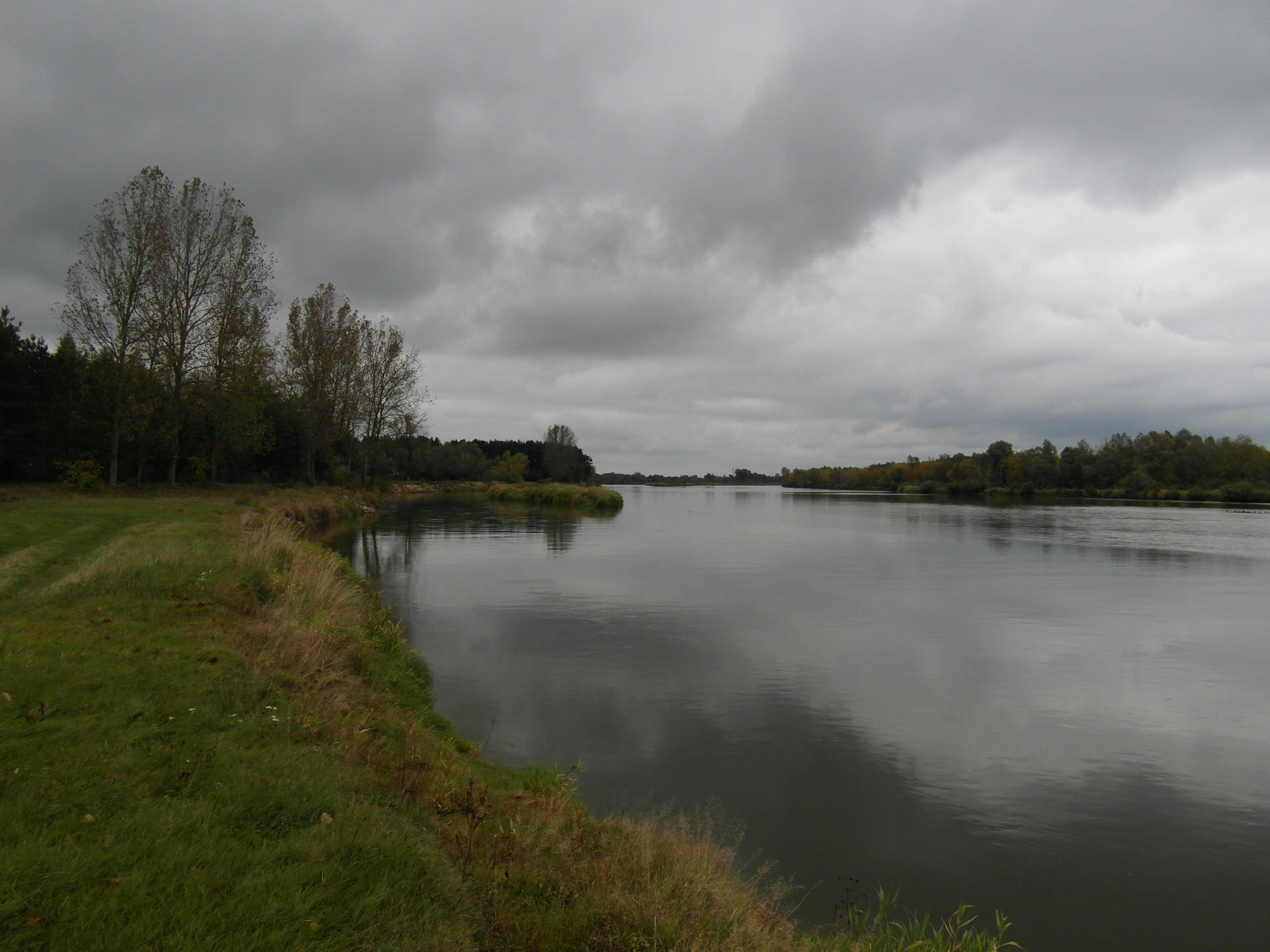 Gulczewo (powiat wyszkowski), Bug river